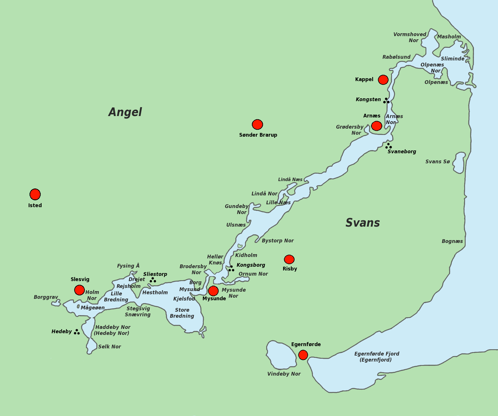 map of the Schlei Fjord (Danish placenames)